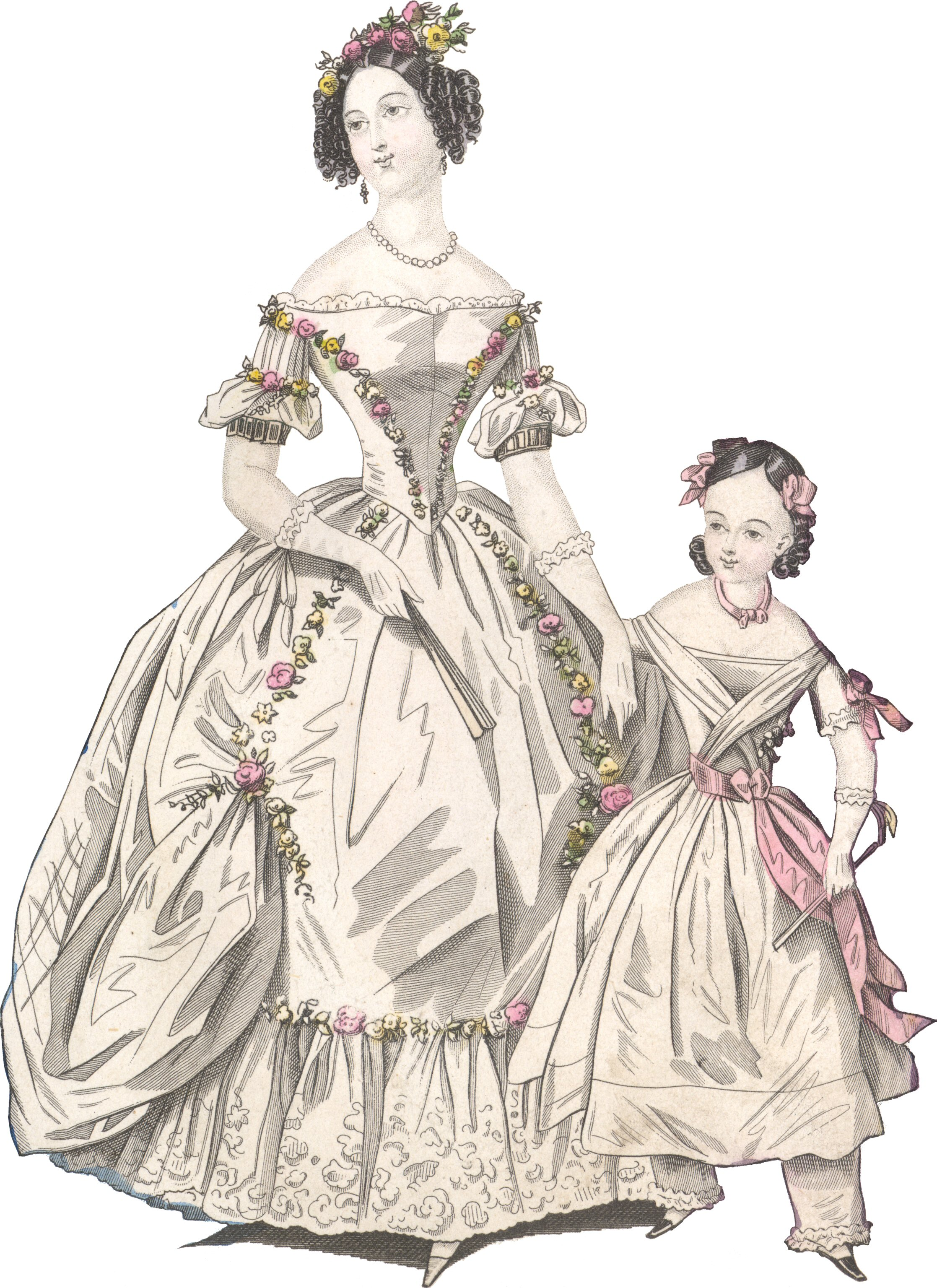 FIG. 2--Open robe of withe tulle over a white satin petticoat ; the latter is trimmed with a blond lace flounce, which is headed by a wreath of flowers. The robe is looped high at each side by a gerbe of flowers, and trimmed by a wreath which extends to the waist. A low corsage, and short sleeves, both decorated with flowers. The hair disposed in ringlets at the sides, and a full knot behind. is adorned en suite. FIG. 3.--India muslin frock and pantaloons ; the corsage is trimmed with a fichu drapery, and the sleeves with knots of ribbon. Ceinture, neck knot, and hair knots en suite.